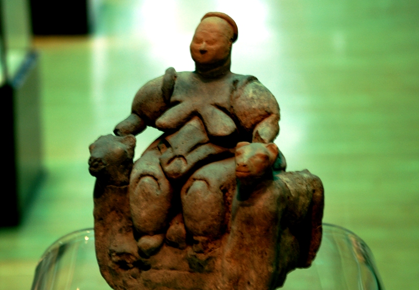 Mother goddess from Çatalhöyük